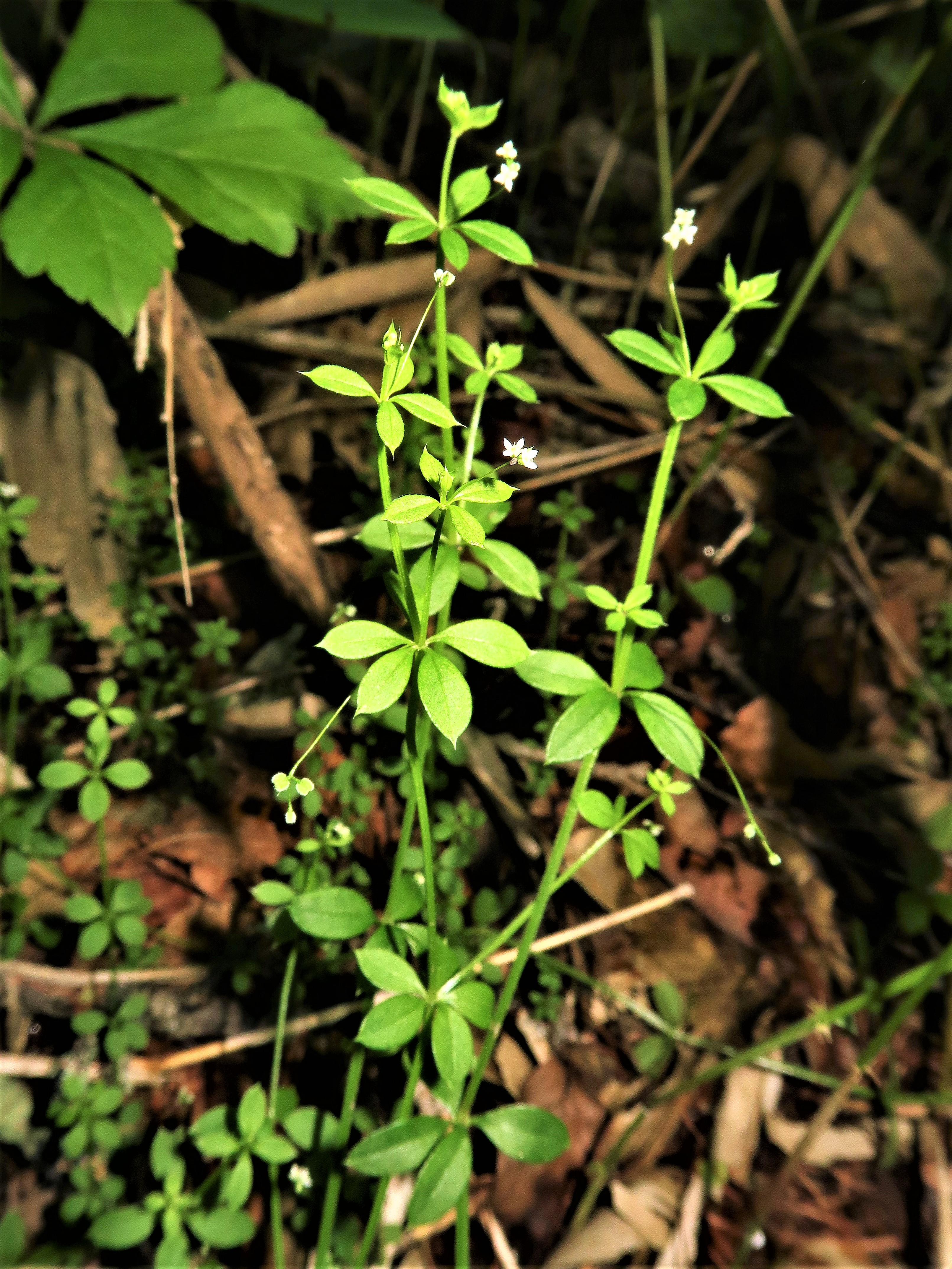 Galium kikumugura, Nikko city, Tochigi pref., Japan